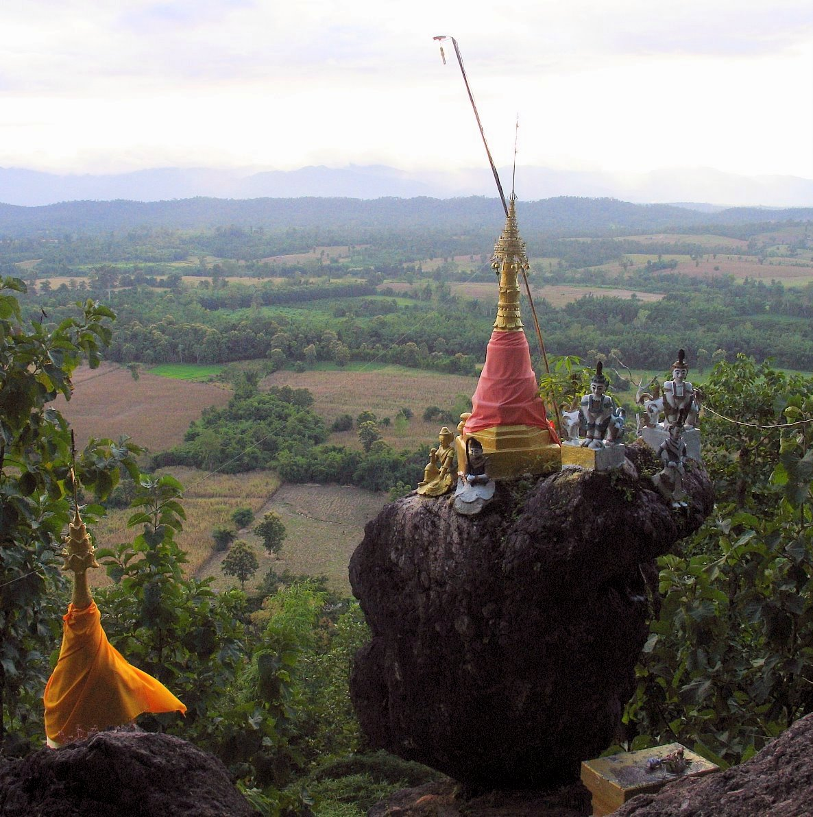 On a sacred hill, just north east of Mae Sot near the Burmese border, is Wat Phra That Doi Din Chi (Thai script: วัดพระธาตุดอยดินจี่; lit. "Temple of the Buddha Relics on Charred Earth Mountain"). It features a small Mon style stupa, approximately 2 1/2 meters in height, on top of a balancing rock, and a Buddha footprint enclosed within a glass cabinet. This is located on a ridge overlooking the Thai-Burmese border, formed by the Taunggin (Burmese) or Moei (Thai) River, which is hidden from sight by the line of trees below going from left to right. The hills and mountains in the distance, inside Burma's Myawaddy District, are part of the southern end of the Dawna Range. In Thai, a balancing rock is called hin kio, and it is therefore that this temple is also called Wat Phra That Hin Kio (Thai script: วัดพระธาตุหินกิ่ว).